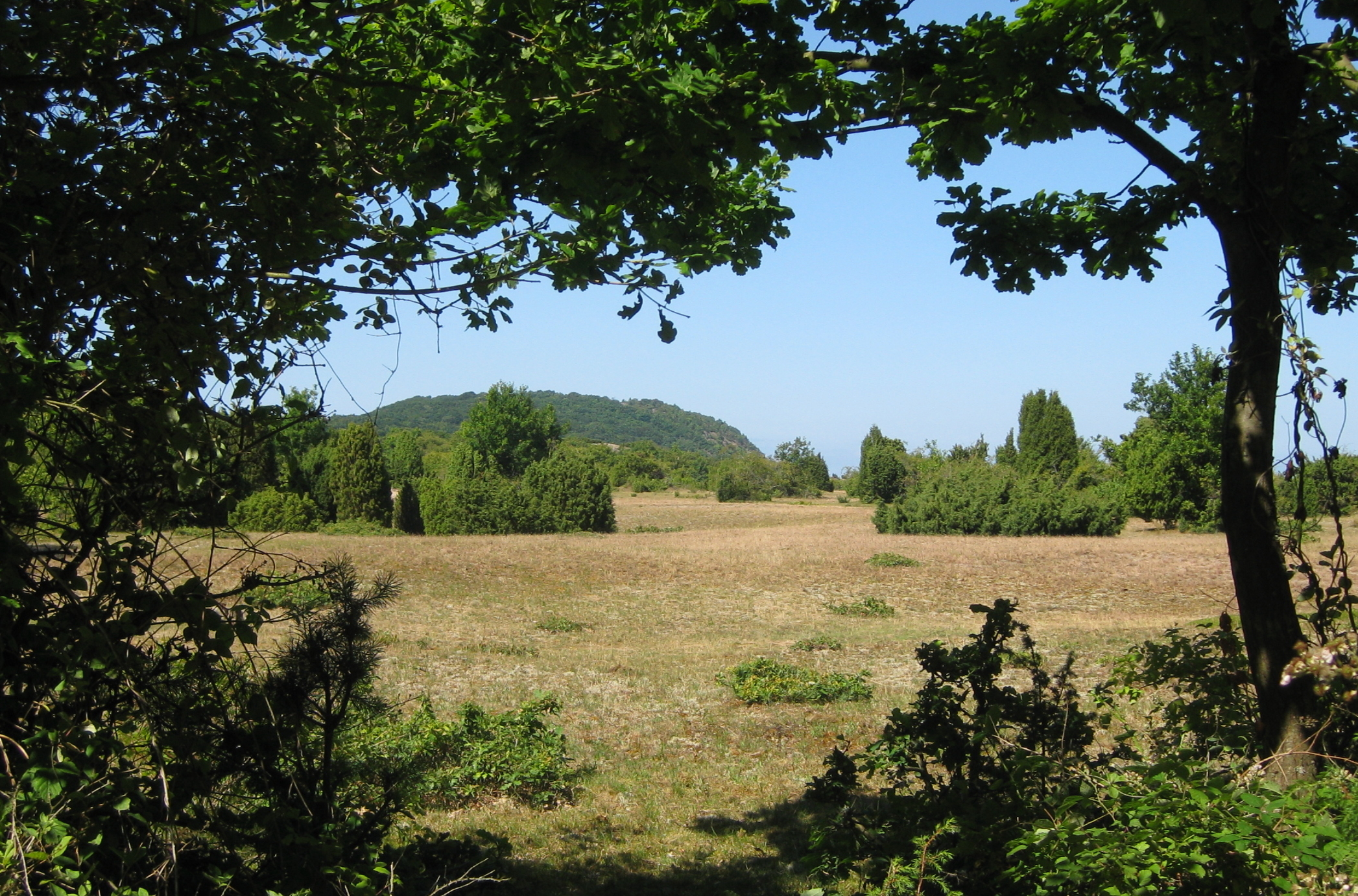 Sandy pastures with juniper in the southern part of Stenshuvud National Park